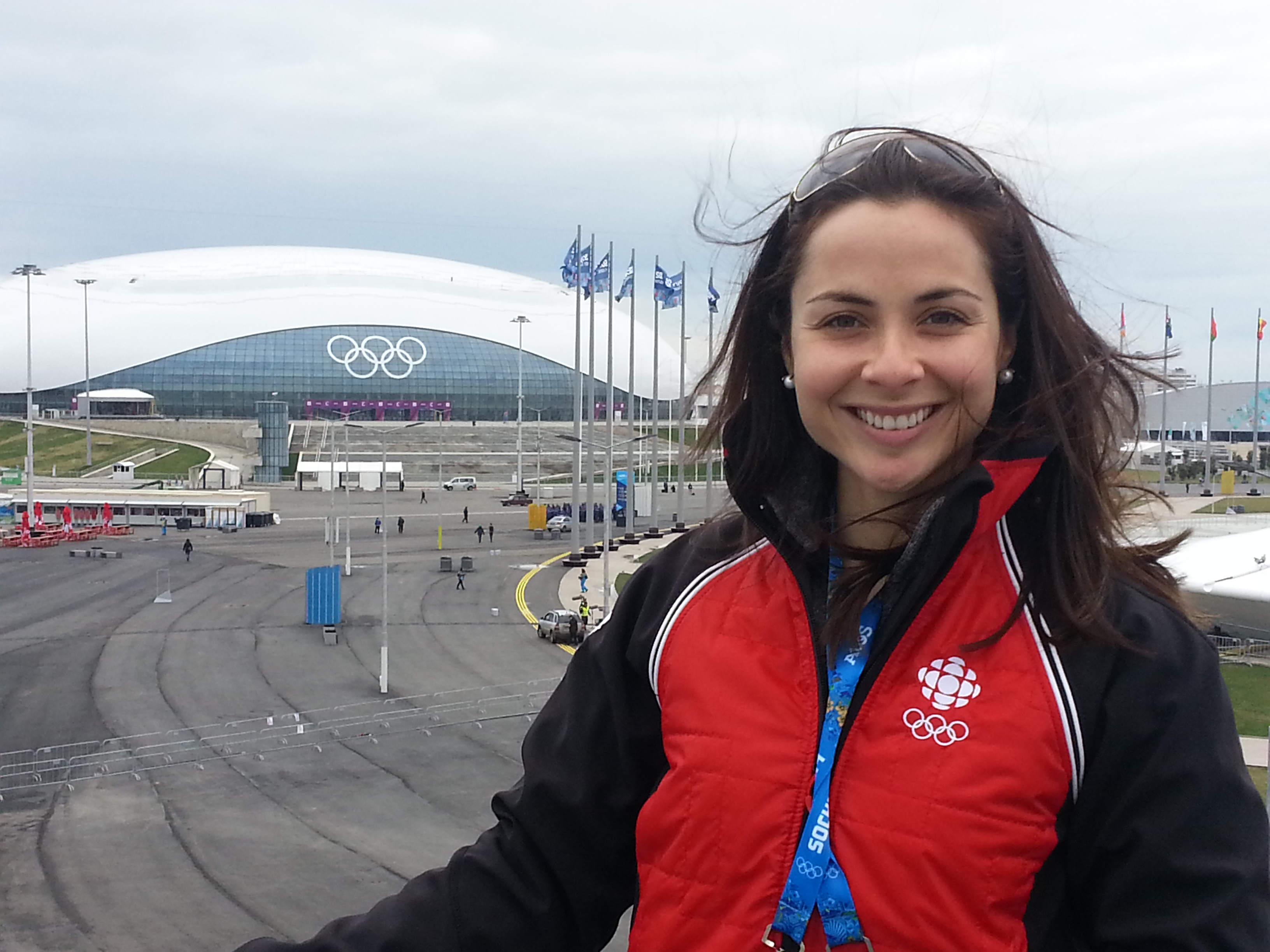 Andi Petrillo at the 2014 Winter Olympics in Sochi, Russia